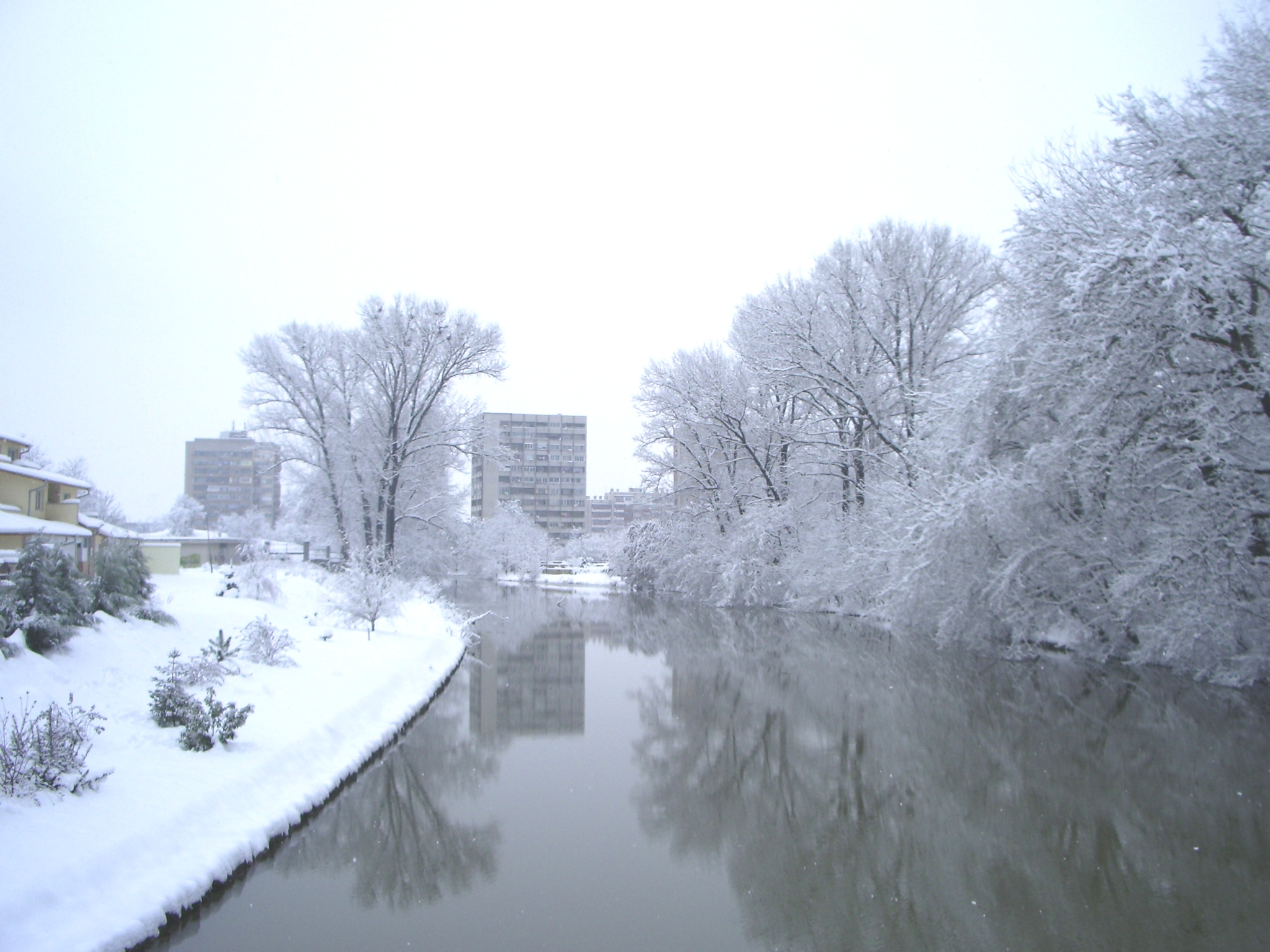 Tundzha River by Winter, Yambol, Bulgaria - near city stadium